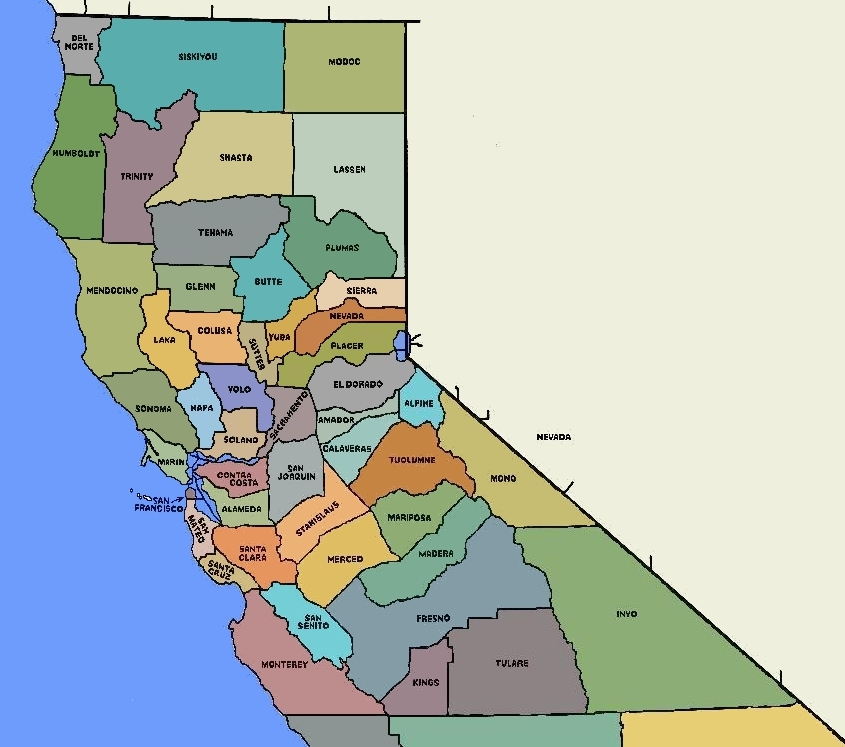 Map of the Counties of Northern California